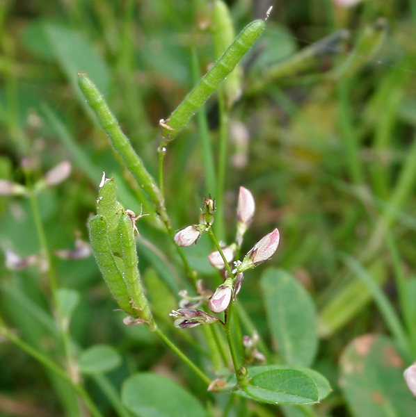 Alysicarpus bupleurifolius in Goa, India.